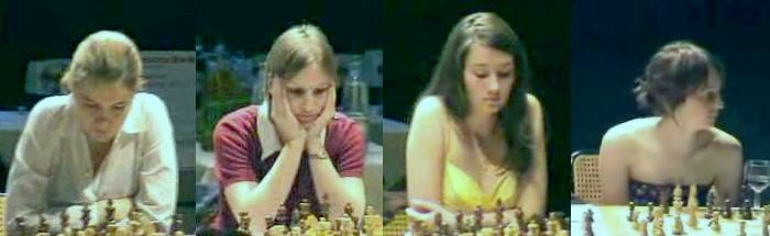 Anne Czaeczine, Leonie Helm, Tina Mietzner and Elisabeth Paehtz, 2nd May 2004 in the Bundeskunsthalle Bonn, Photographer Gerhard Hund.